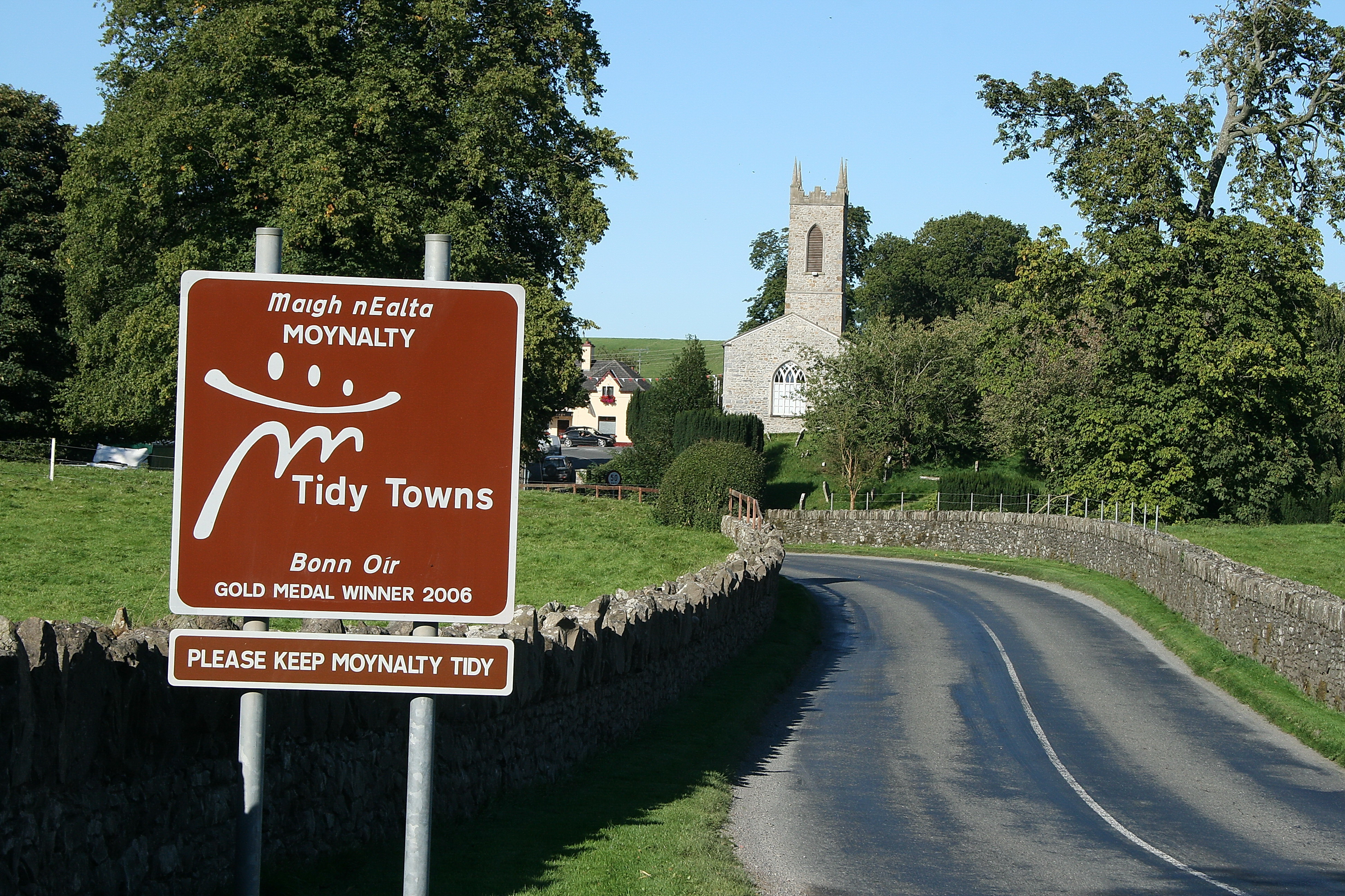 Moynalty, County Meath, overall winner in 2006 of the Tidy Towns competition